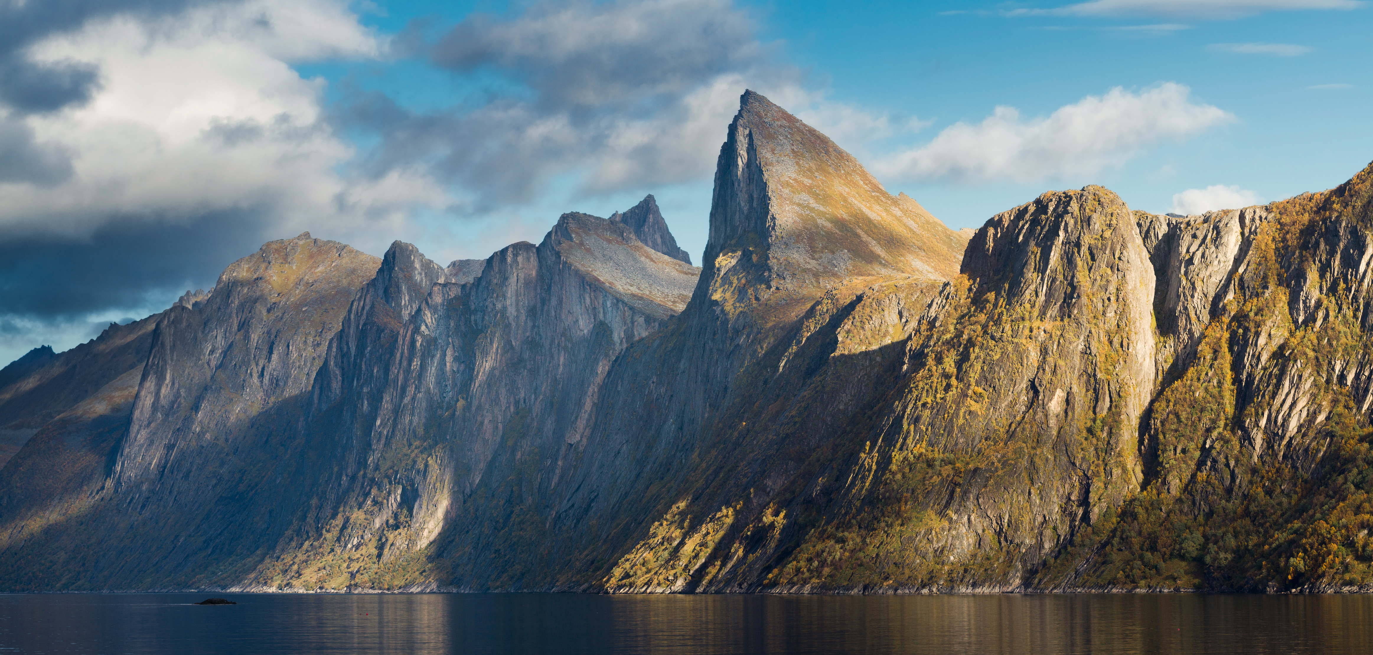 Steep cliffs at Seggelskaret by Mefjorden, Senja, Troms, Norway in 2015 September. Segla is the steep and dominant peak on the center right. The coastal mountain ridge marks the border between municipalities of Berg and Lenvik, the steep drop facing towards Berg.